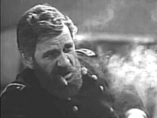 E. Alyn Warren in the public domain movie Abraham Lincoln (1930)